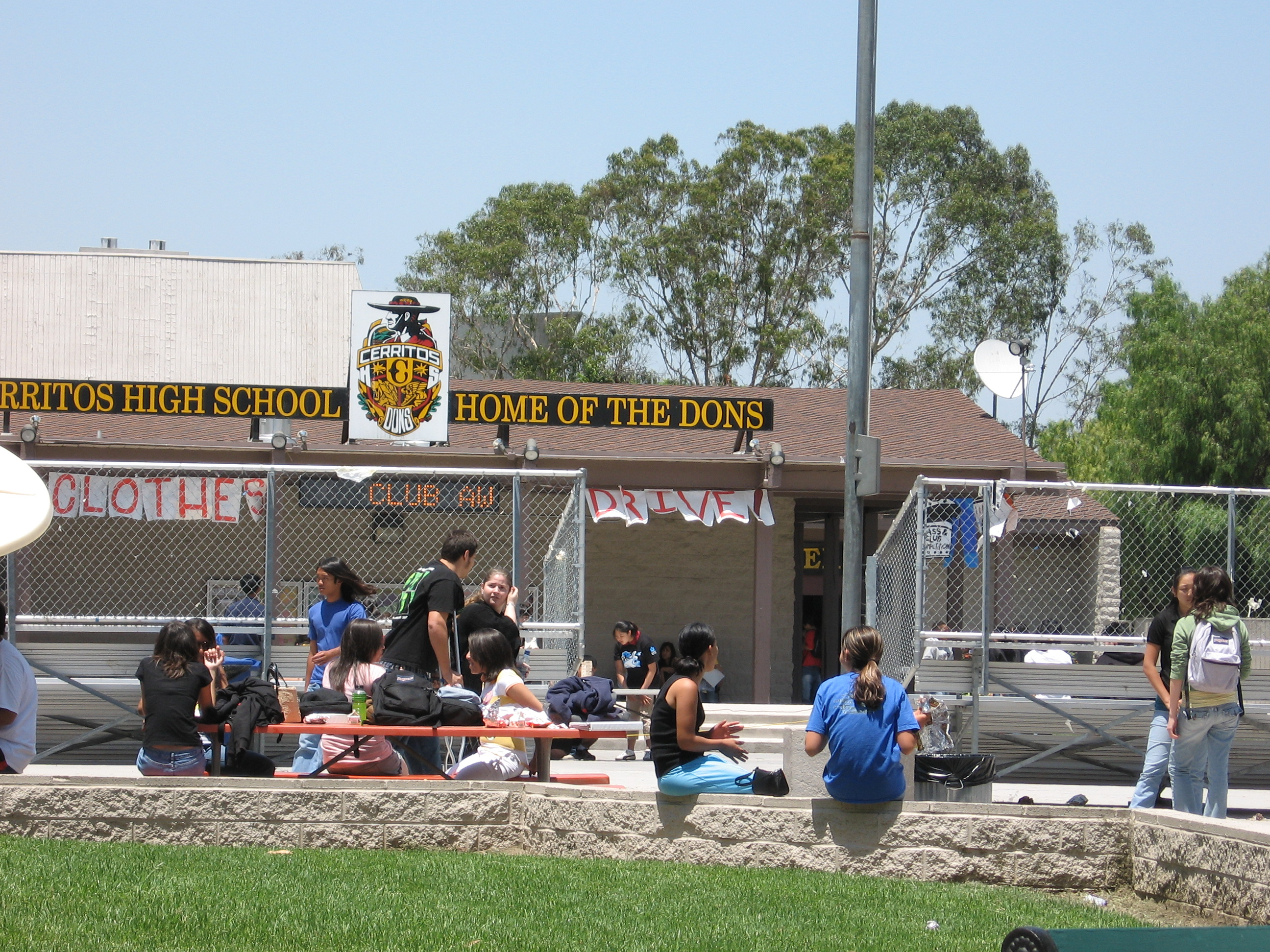 The quad of Cerritos High School Picture taken by Phorpus, a student at CHS